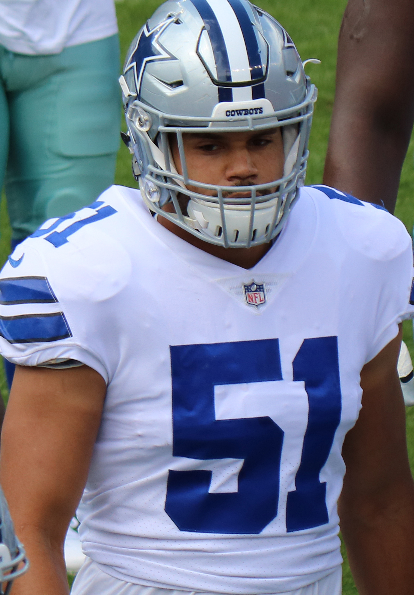 Kyle Wilber, a player on the National Football League.